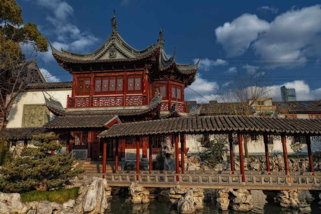 Tingtao Tower (Left) and Jade Water Corridor at Yu garden in Shanghai